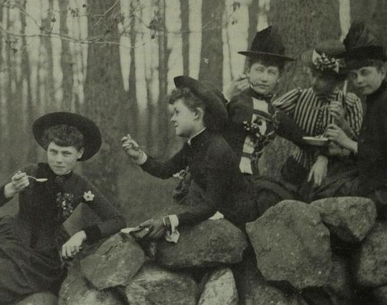 Abbot Academy students on a picnic in 1888. Abbot Academy was a women's only boarding school in Andover, Massachusetts, that merged with Phillips Academy in 1973.